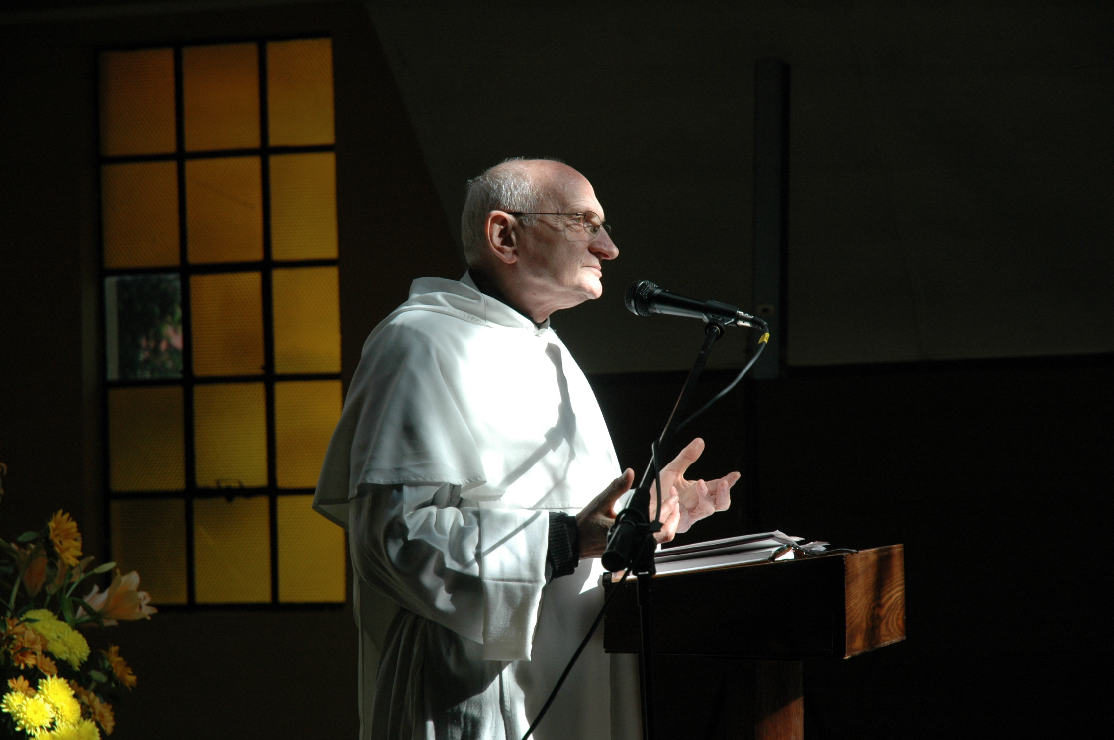 Father Józef Puciłowski of Dominican Order gives a lecture during Dominican School of Faith. Chapel at St. Dominic parish in Szczecin, Poland.